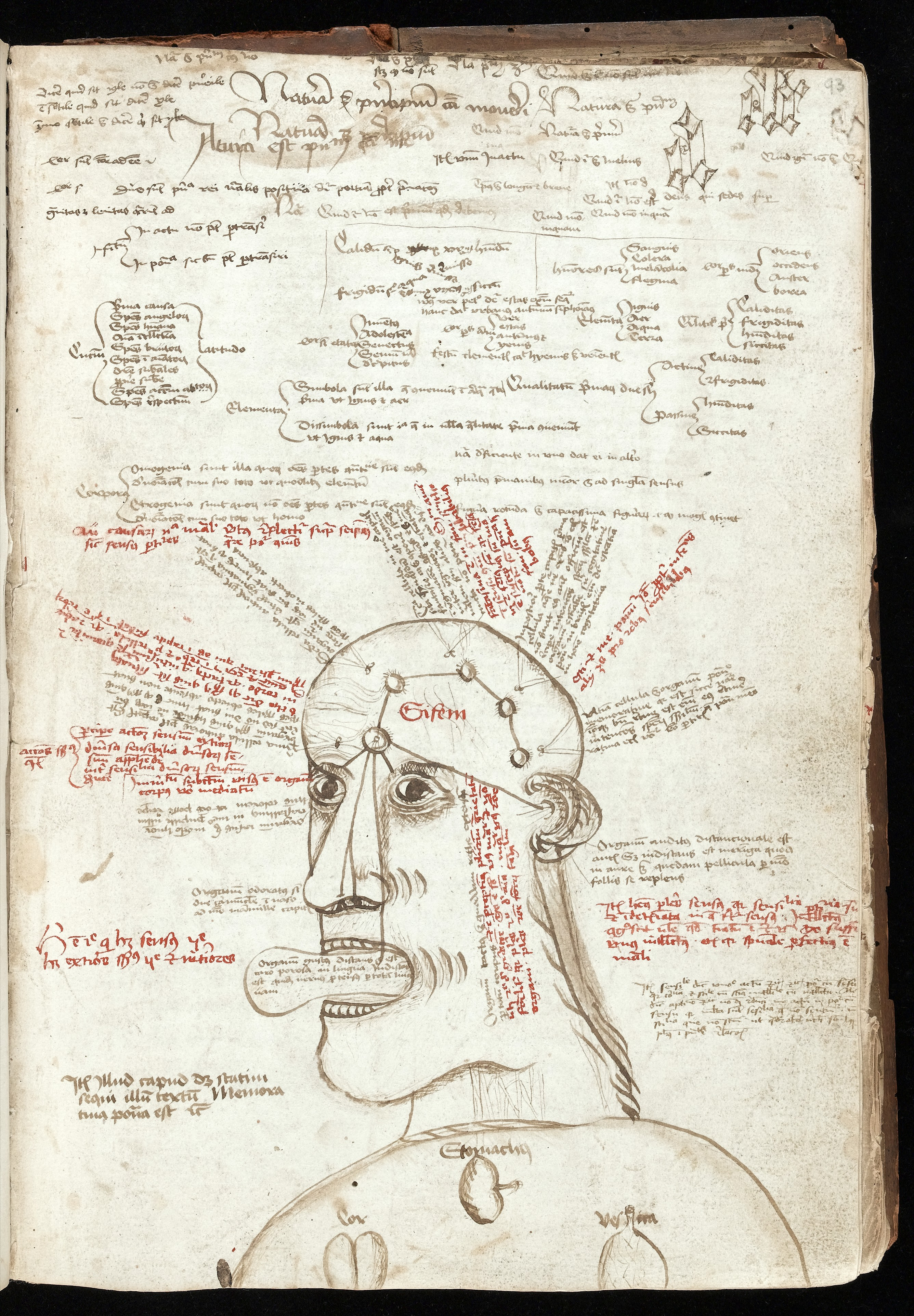 Drawing of "cell", interpretation of brain function. Analytica priora [Incompleted]. Analytica posteriora. De codlo e mundo. De anima [Incompleted]. De sensu et sensato. With tracts on logic, etc. by Porphyrius and others. Mainly holograph M.S. by the hand of Johann Lindner of Mönchburg [1440-1524], the German historian. Written by Johann Lindner throughout, except for ff. 94-99, in a neat rounded gothic, 28 lines to a page, with many contractions: the marginal notes accompanying some of the treatises are also probably written by him. Some ornamental initials in blue and red, paragraph marks in blue and red, some headings in red. Folio 93 is a pen-drawing of a human head and torso, illustrating the sense-organs. Archives & Manuscripts